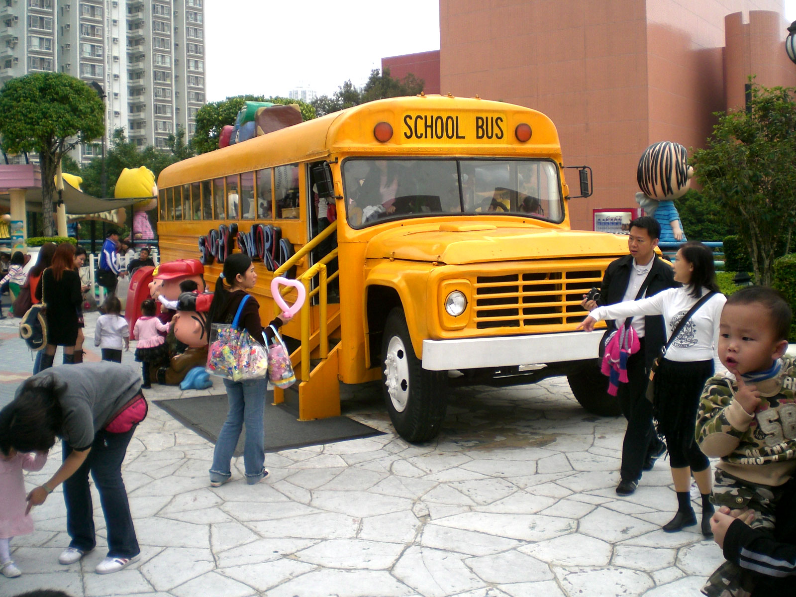 Description= 史諾比開心世界, Snoopy World, New Town Plaza, Shatin, Hong Kong Source= self-made Author= Busnoopy